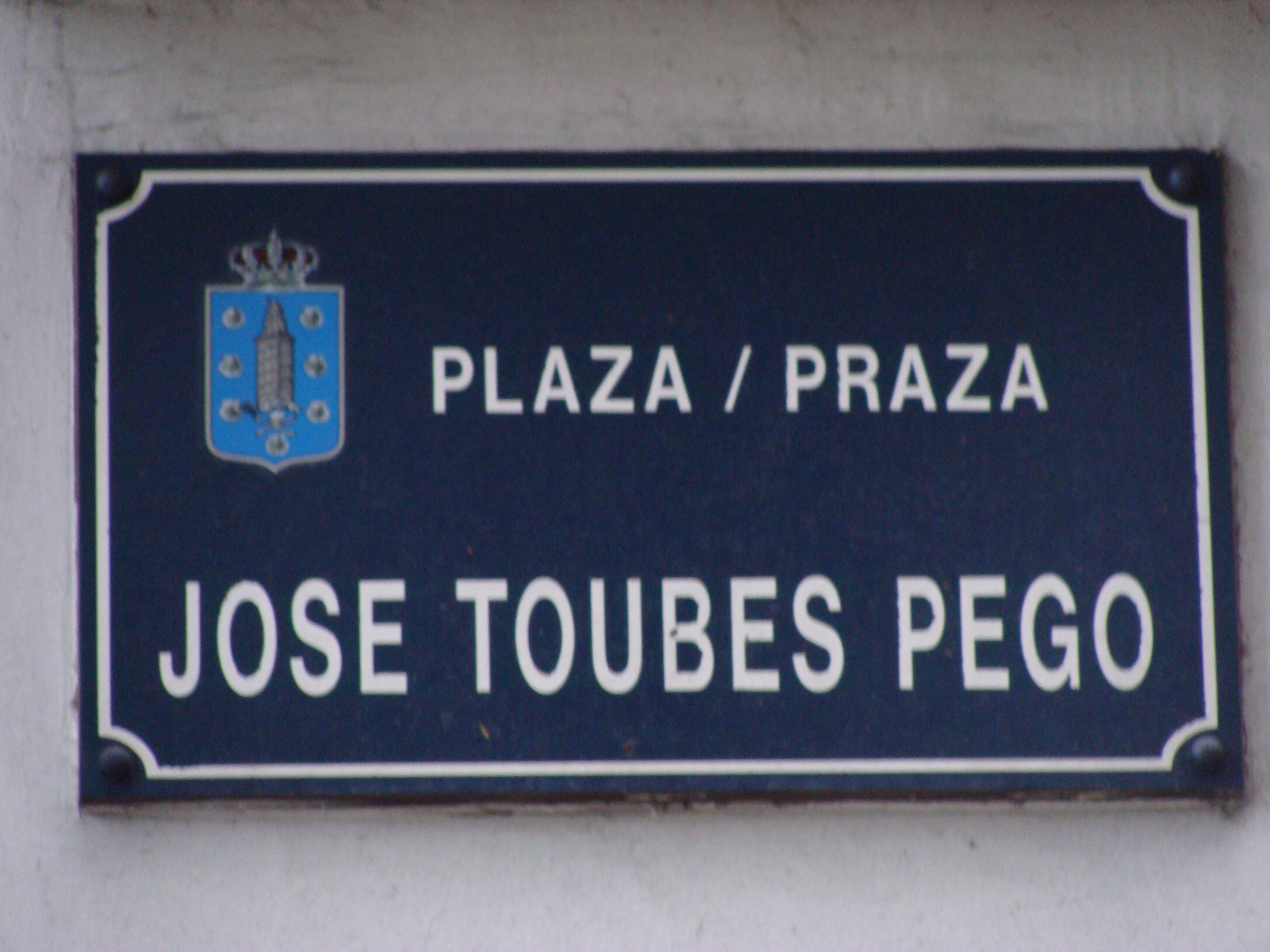 José Toubes Pego street sign in A Coruña, Galicia, Spain.